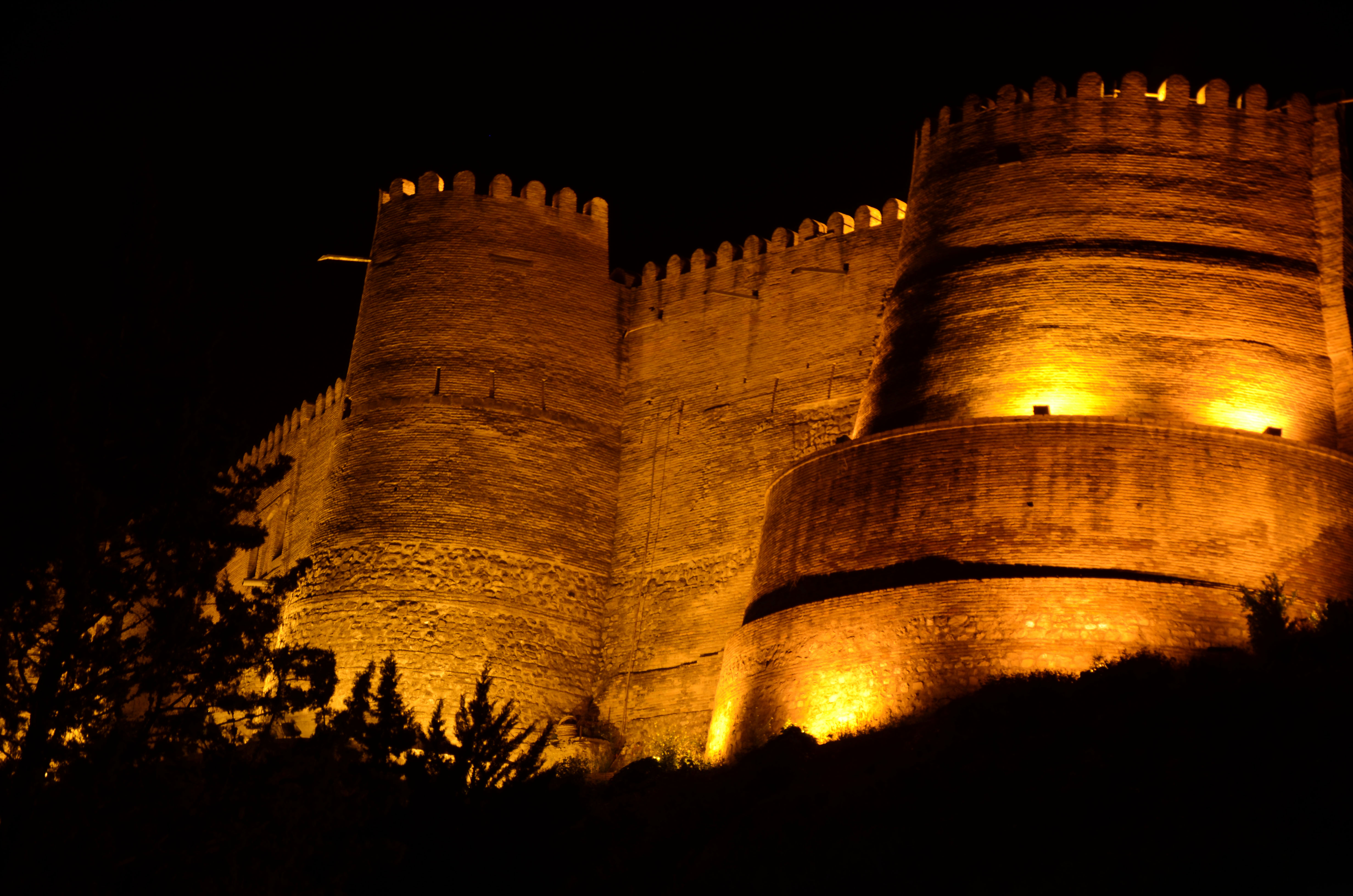 Iran - Lorestan - Khorramabad - Falakolaflak Castle